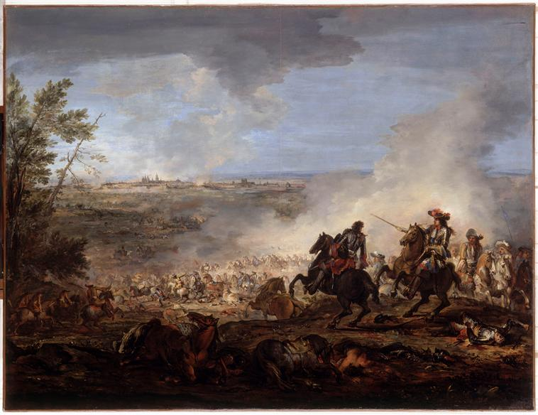 Joseph Parrocel, Louis XIV of France and his troops approaching Maastricht (Battle of Maastricht, 1673.). Collection: palace of Versailles.